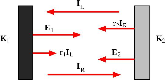 Exchange of heat radiation between two plates.